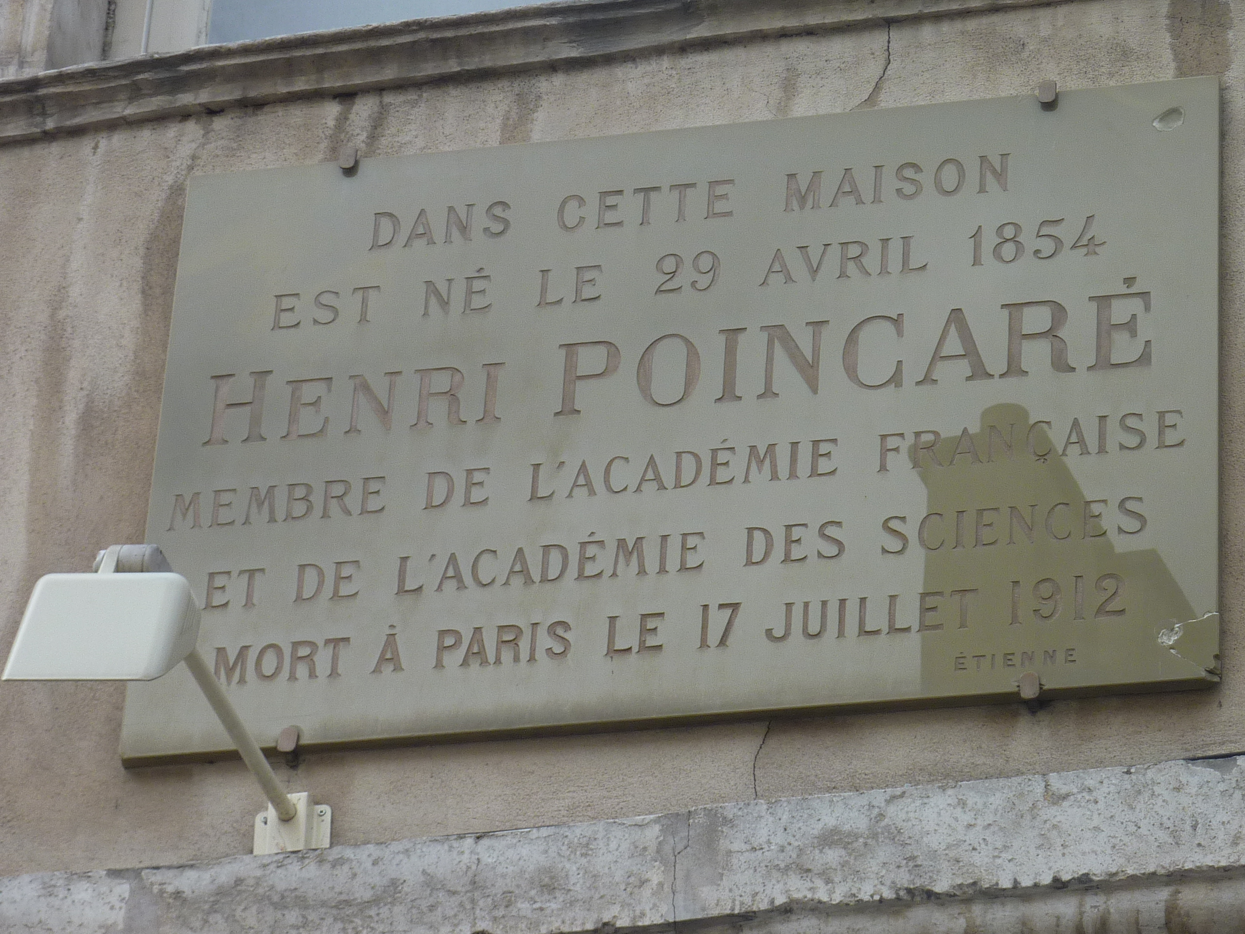 Commemorative plaque situated on house number 117 on the Grande rue in Nancy (France), indicating the birth house of Henri Poincaré.